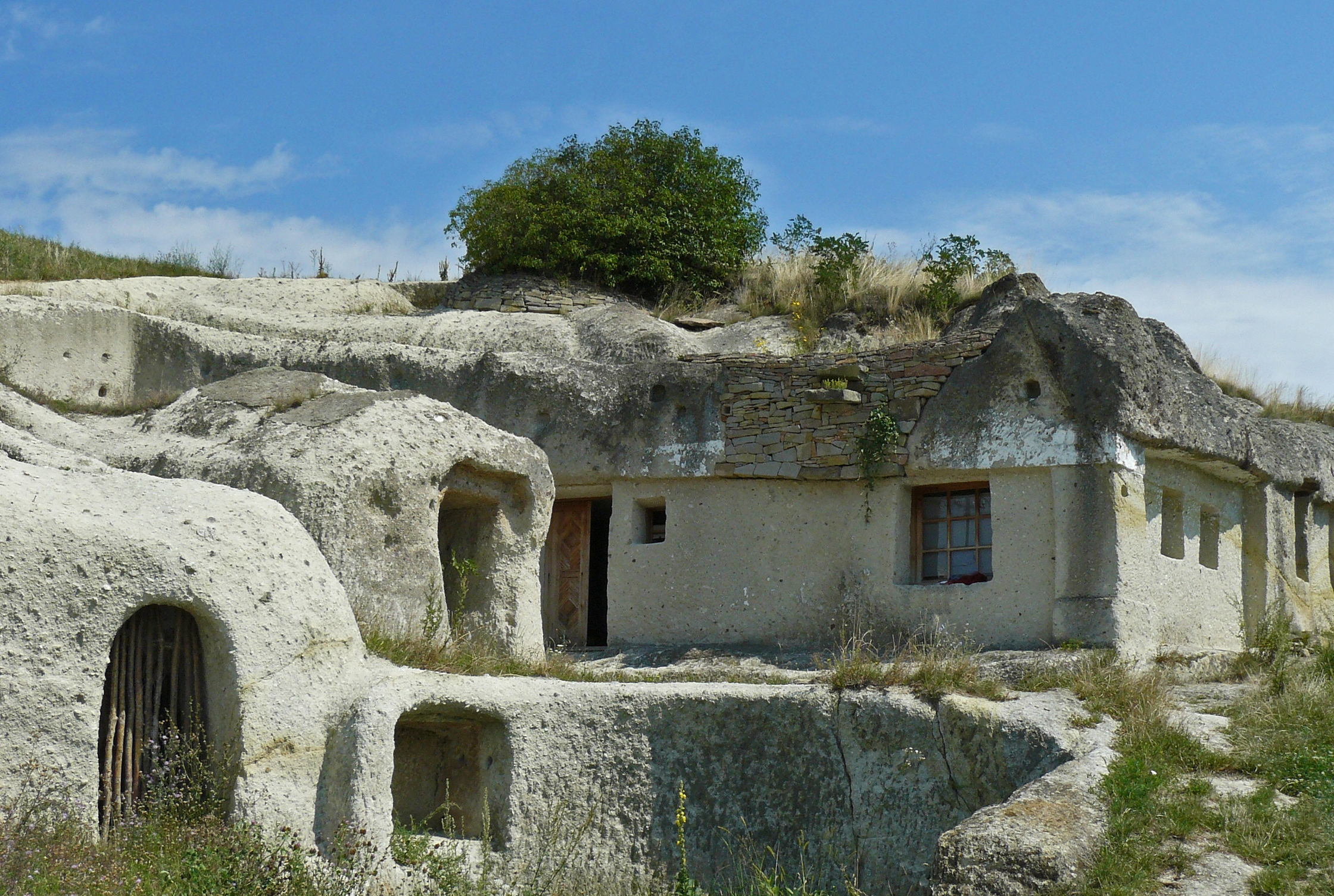 Cave-dwellings in Noszvaj (North-Hungary) were cut into the soft rhyolite tuff at the beginning of 19th century. Nowadays these are uninhabited or used by artists.